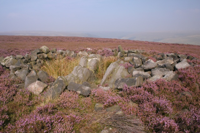 Millers Grave, Midgley Moor. Looking north at the cairn known as Millers Grave (scheduled monument 31486). Thought to be a bronze age burial site which has had smaller stones rearranged, possibly to form a shelter.